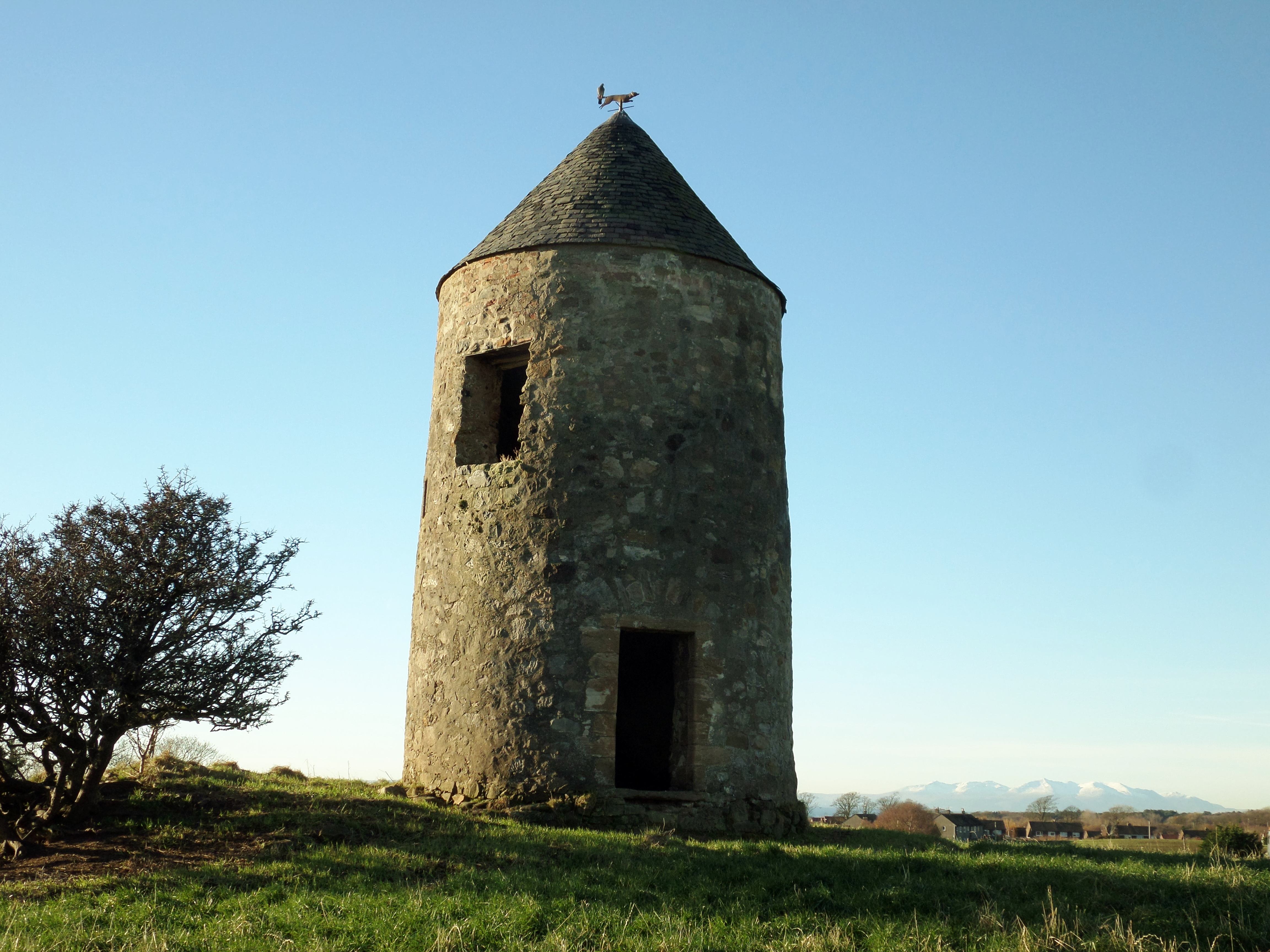 Monkton Vaulted Tower Windmill, South Ayrshire, Scotland. View from the east. It was later converted for use as a dovecote